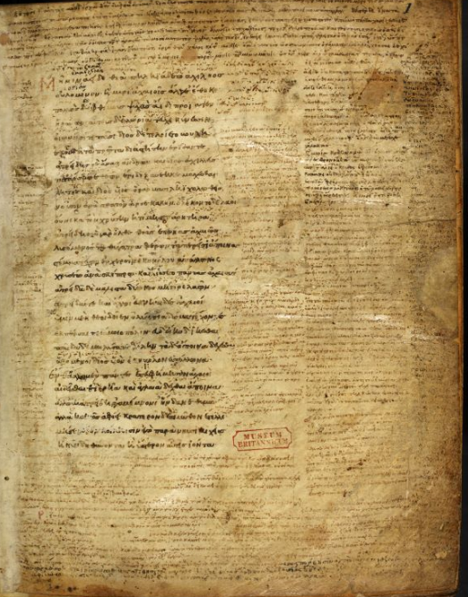 Townley_Homer (British Library MS Burney 86) f 1r (beginning of text and commentary)